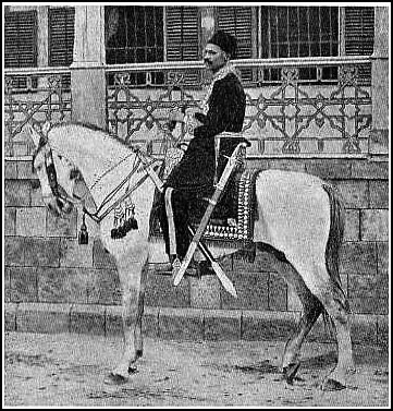 Portrait photo of Zubeir Pasha from Romolo Gessi's memoirs